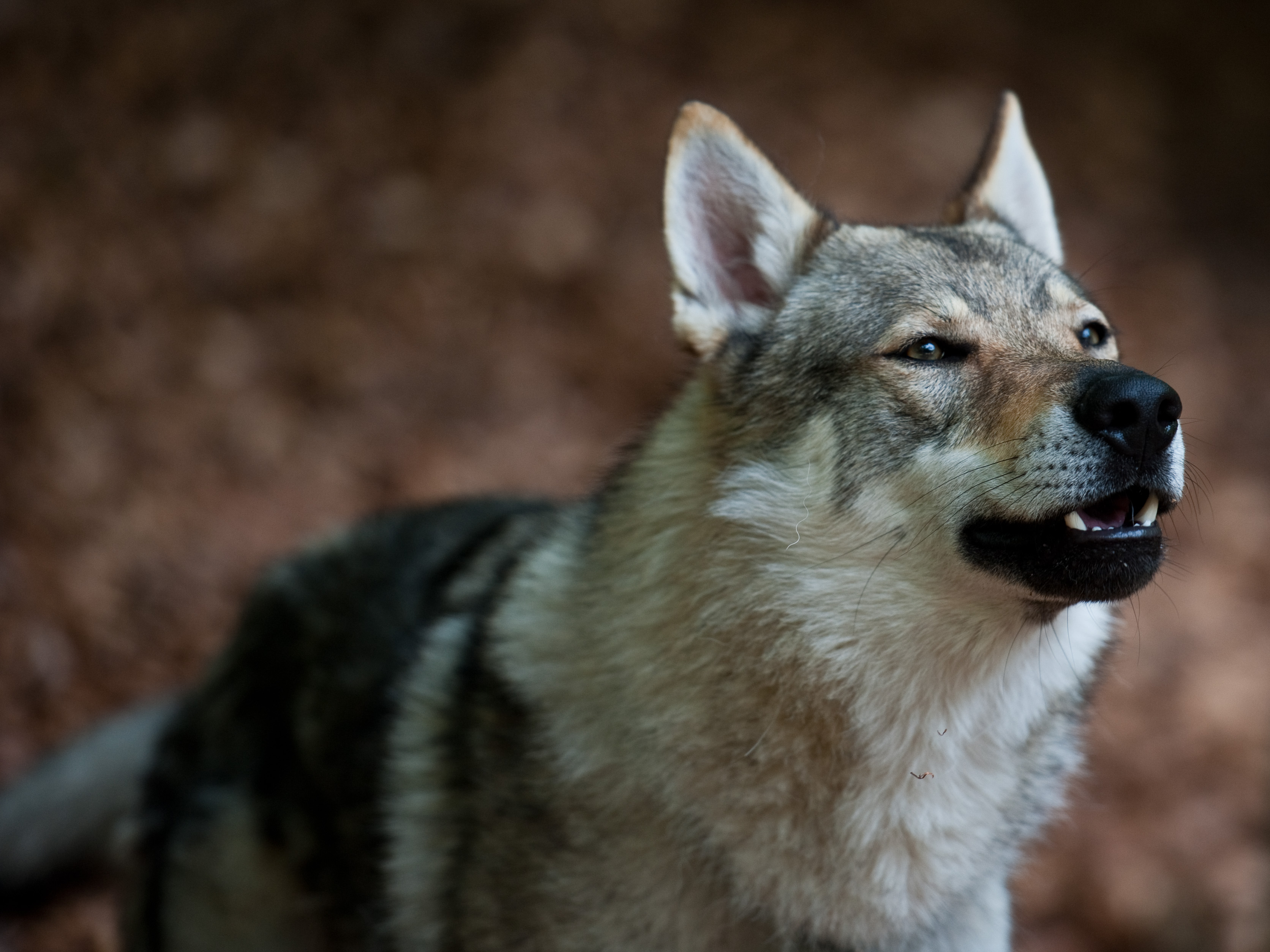 The Czechoslovakian Wolfdog is a relatively new breed of dog from Eastern Europe. It is a cross between a German Shepherd and a Eurasian wolf. It looks mostly like a wolf but behaves like a dog. Until 2008 it was classified a 'Dangerous Wild Animal' in the UK.